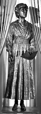 Jeannette Rankin, National Statuary Hall Collection, U.S. Congress